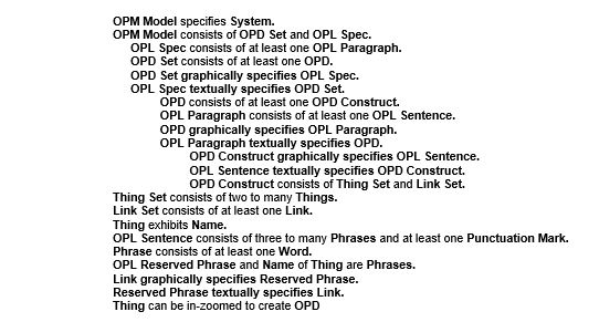 OPM Model 2